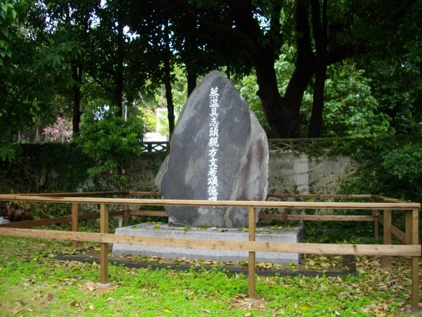 Stele dedicated to Okinawan regent and royal advisor Sai On, at the Shiseibyô Confucian temple in Naha, Okinawa.